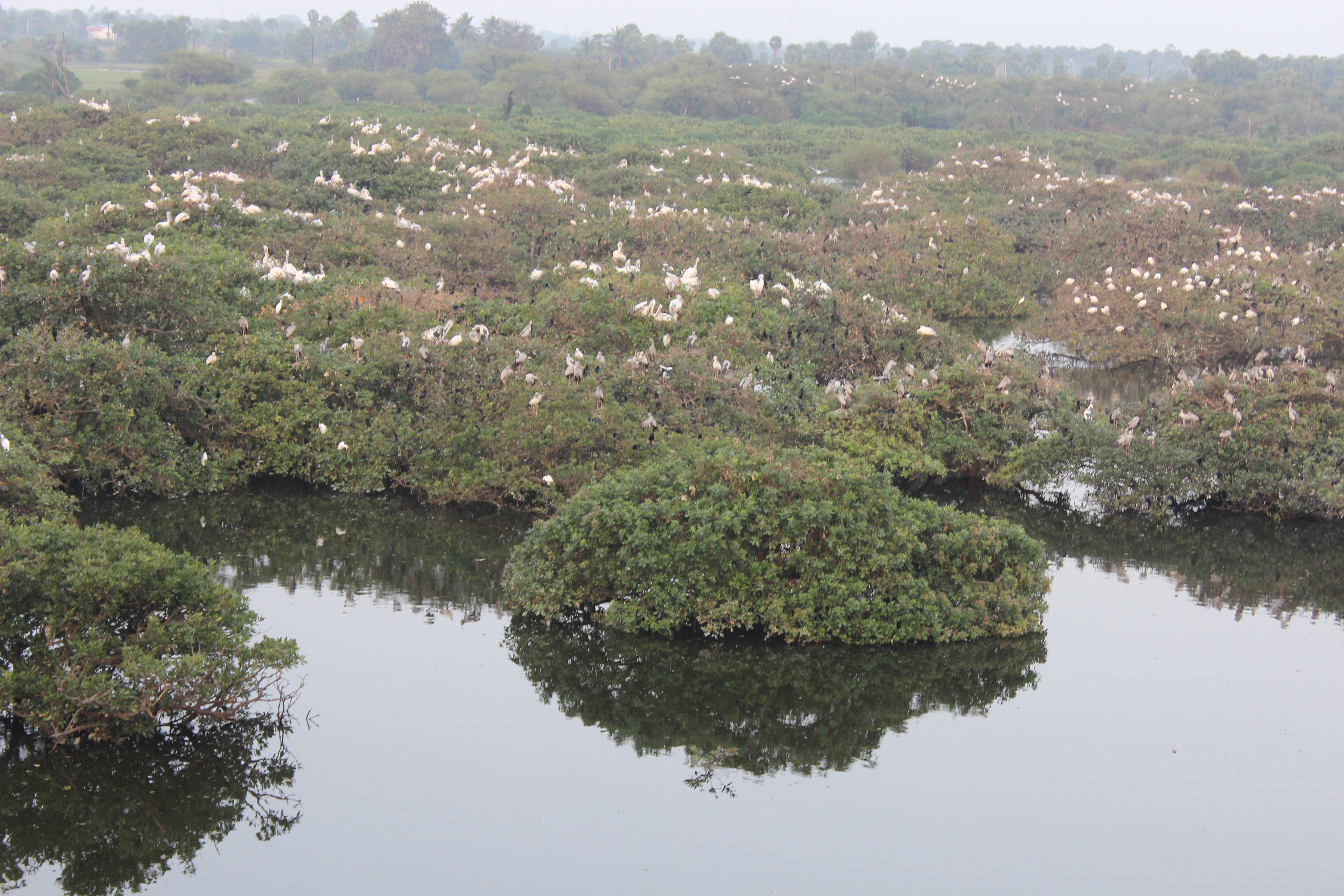 Full View of Vedanthangal bird sanctuary.